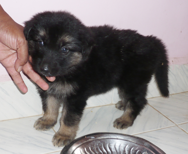 A 35 days old German Shepherd Dog puppy